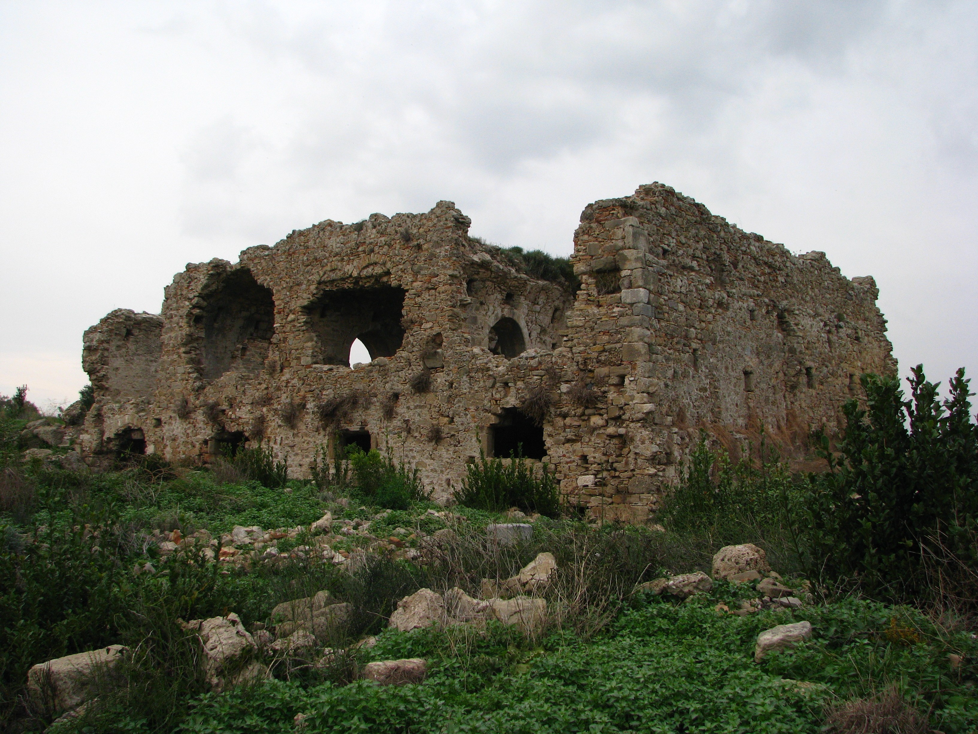 Hospital from the 6th century. Side, Turkey